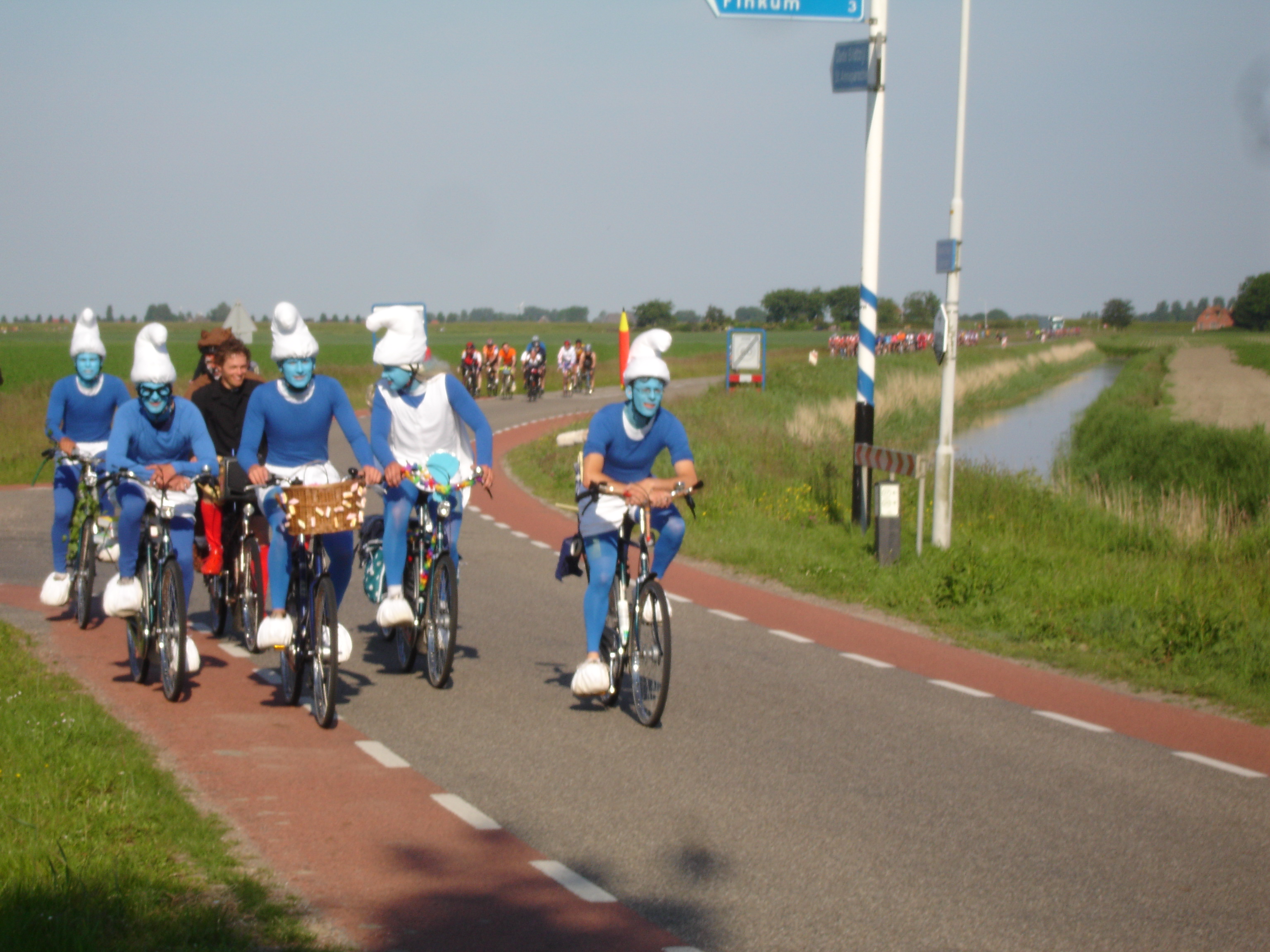 Smurfing on the 11 cities tour